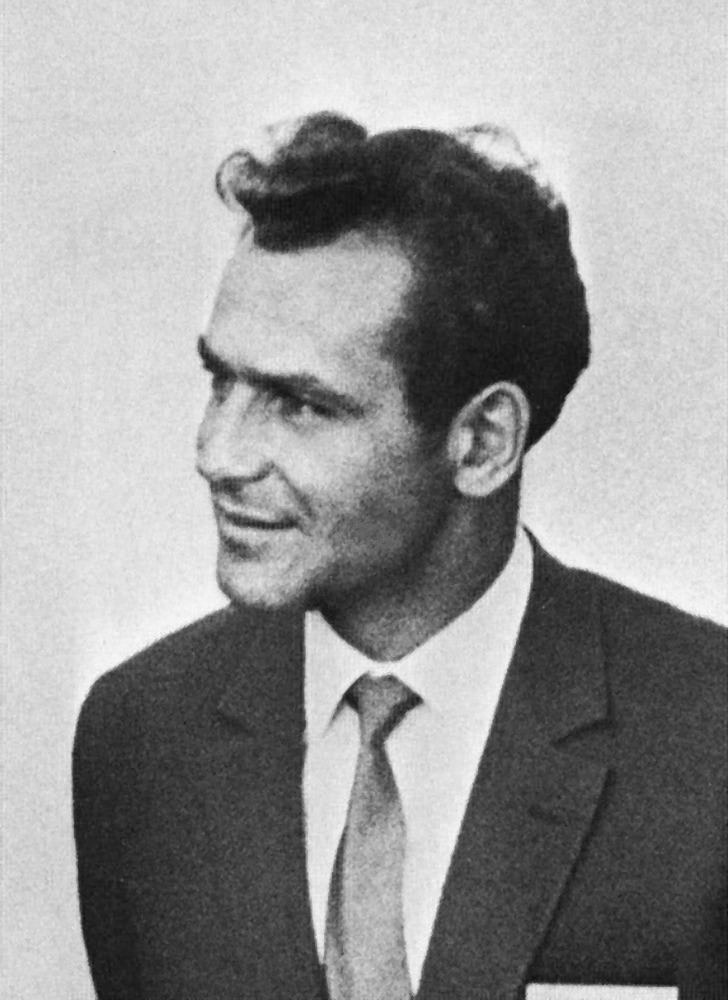 Cosmonaut German Titov at the White House on May 3rd, 1962. Titov was in Washington to give his account of the Vostok 2 spaceflight to the Committee on Space Research (COSPAR). Image from the files of Asif Siddiqi. Image from "Challenge to Apollo: The Soviet Union and the Space Race", 1945- 1974 (NASA SP-2000-4408) by Asif A. Siddiqi.